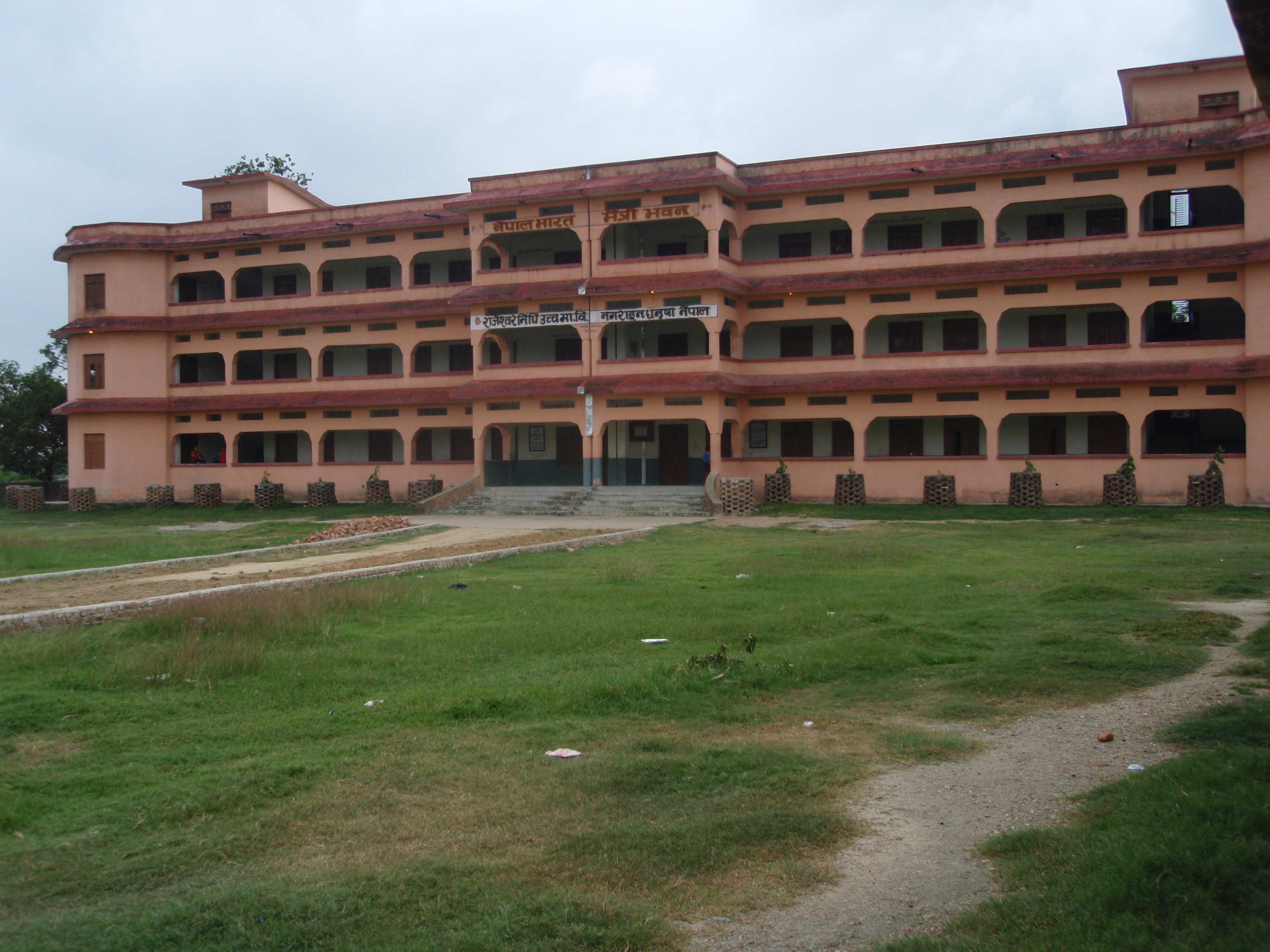 This is a picture of newly constructed Nepal-Bharat Maitri Bhawan, Nagarain.